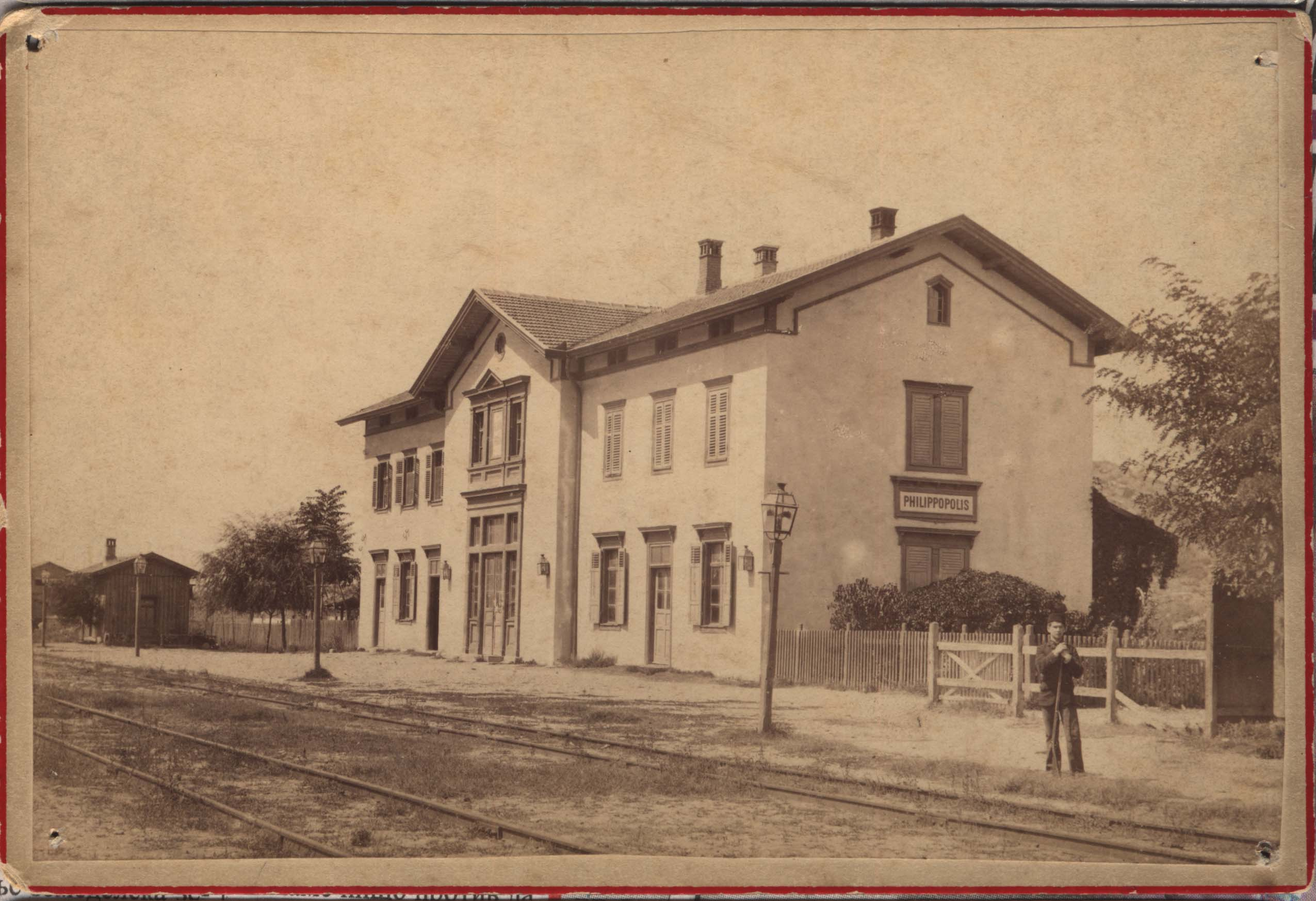 Plovdiv Train Station